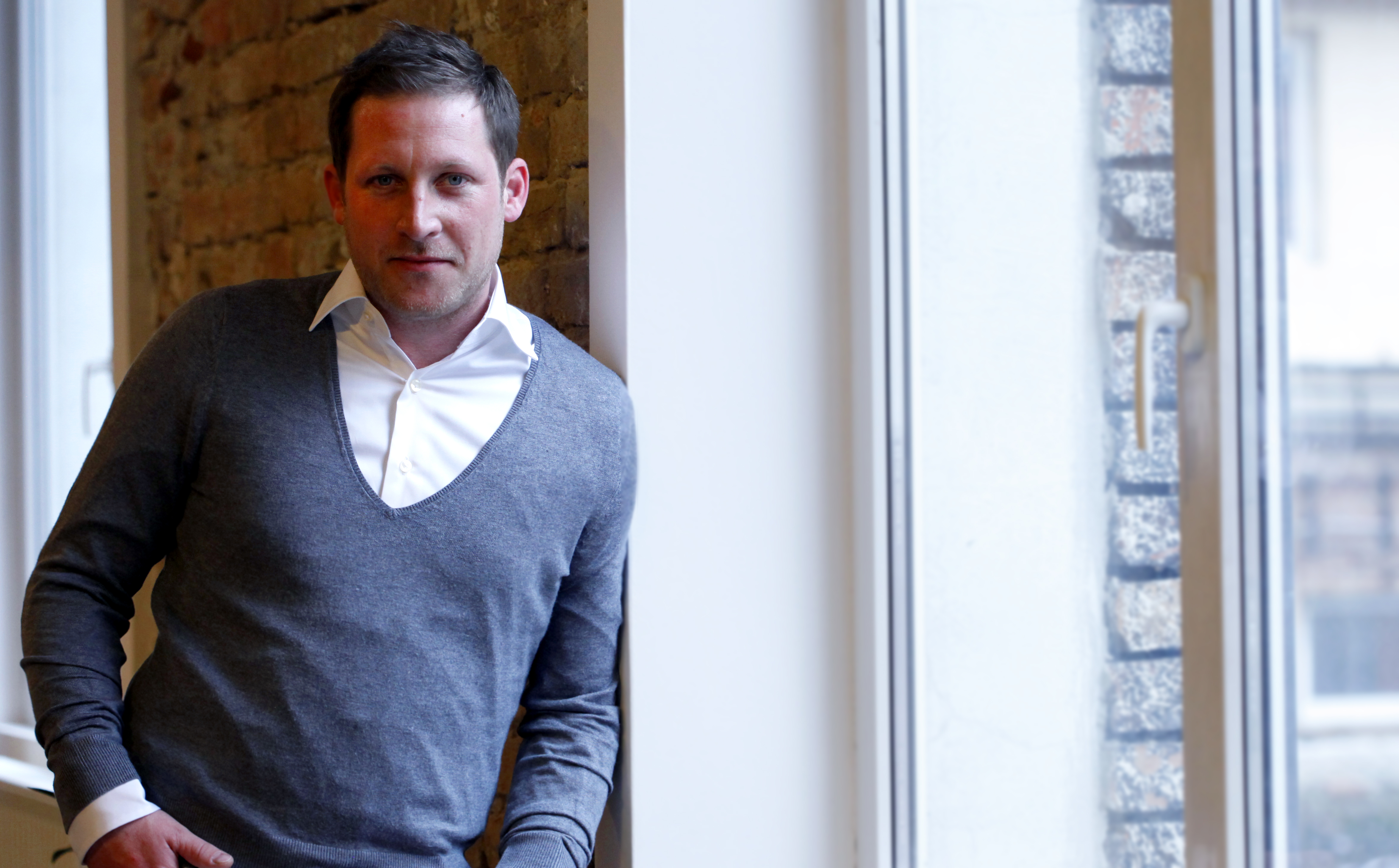 Pal Milkovics